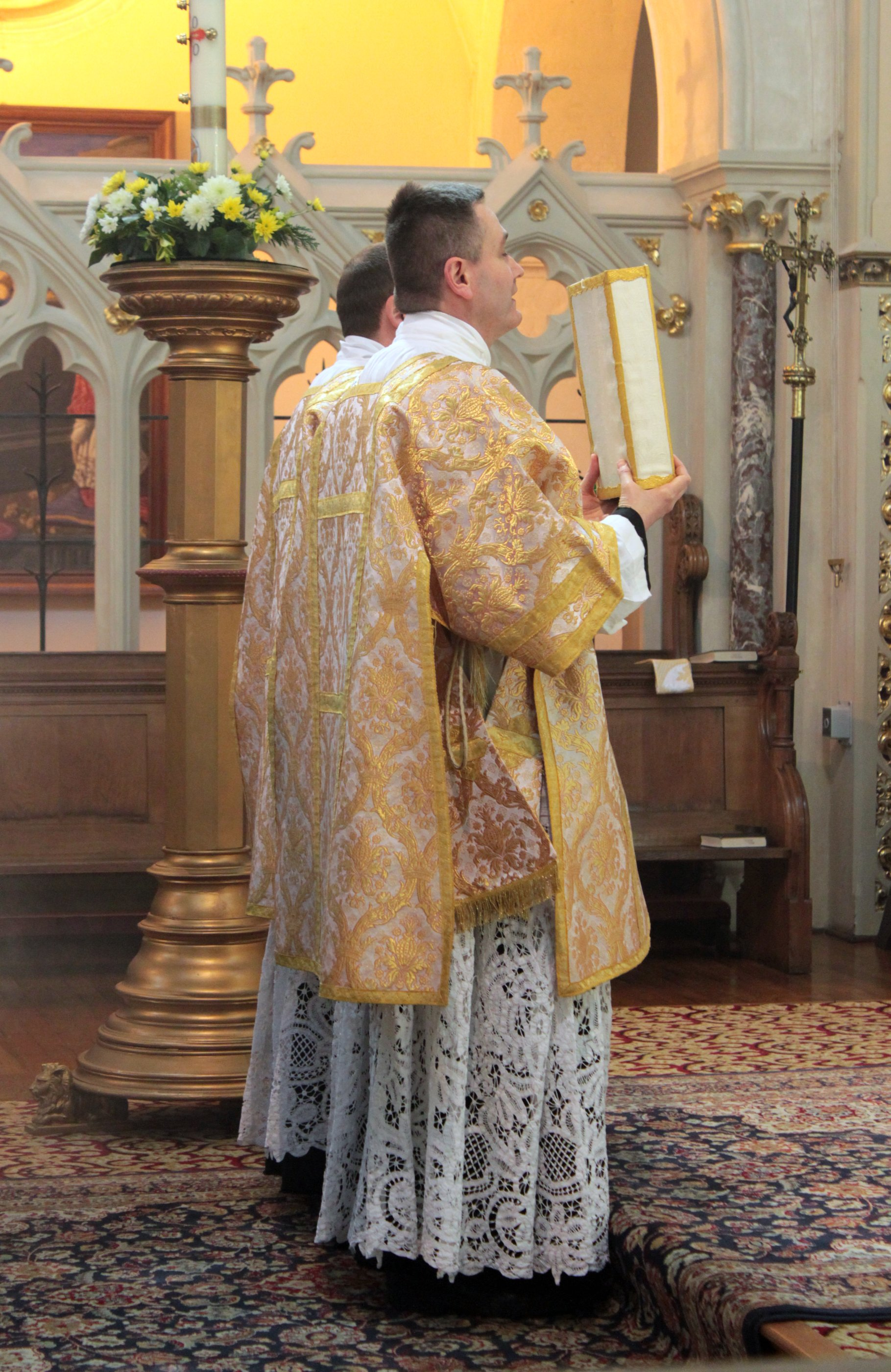 A deacon processes the Book of the Gospels in Oxford Oratory, England